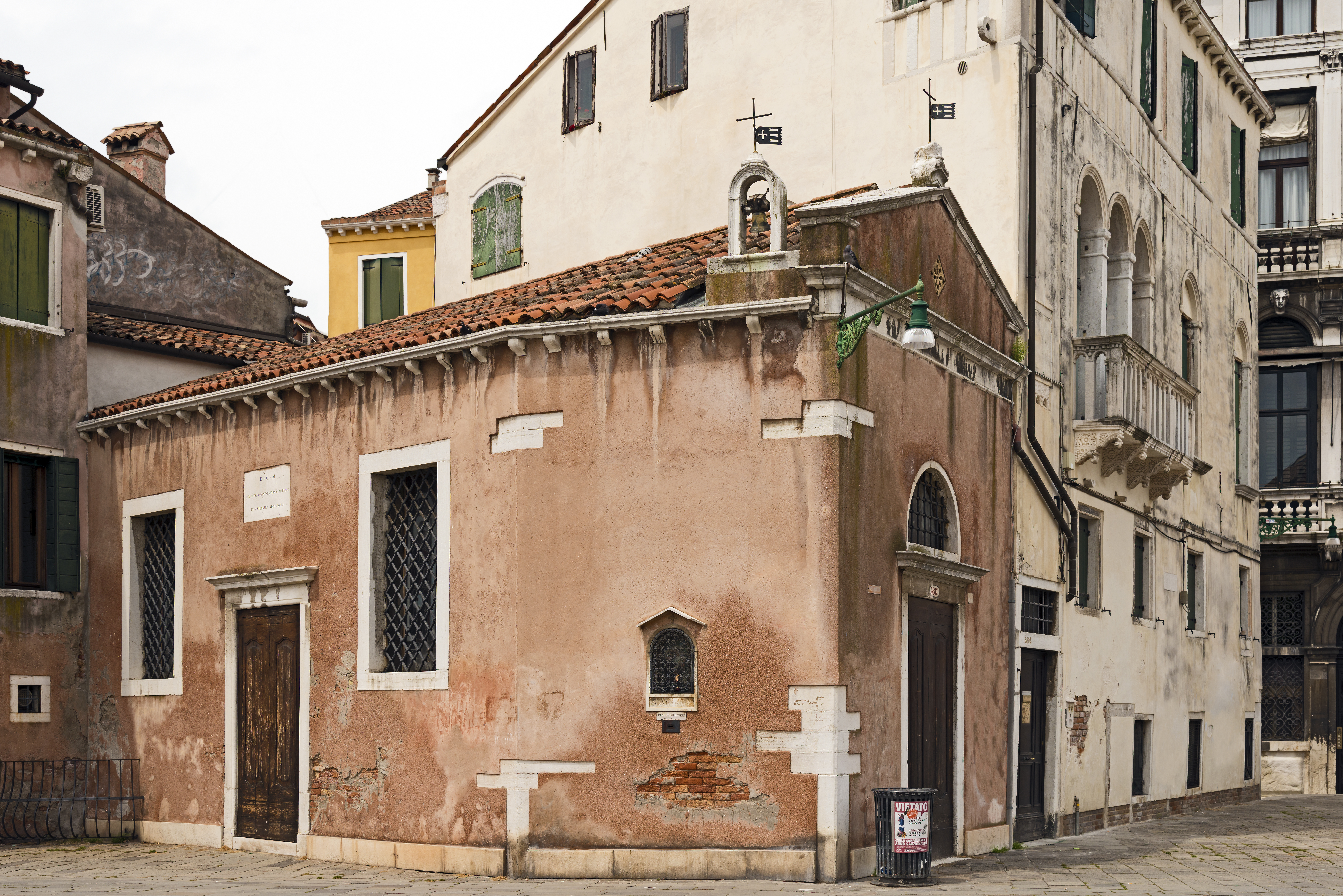 Oratorio Sant'Angelo degli Zoppi,. Founded in 920 by Morosini family under the name of Oratory San Gabriele Arcangelo. He was known locally as different names: As Oratorio della Beata Vergine e di San Michele; or Oratorio dell'Annuciata o degli Zoppi (at the end of 1392 stood here Scuola degli Zoppi lame).